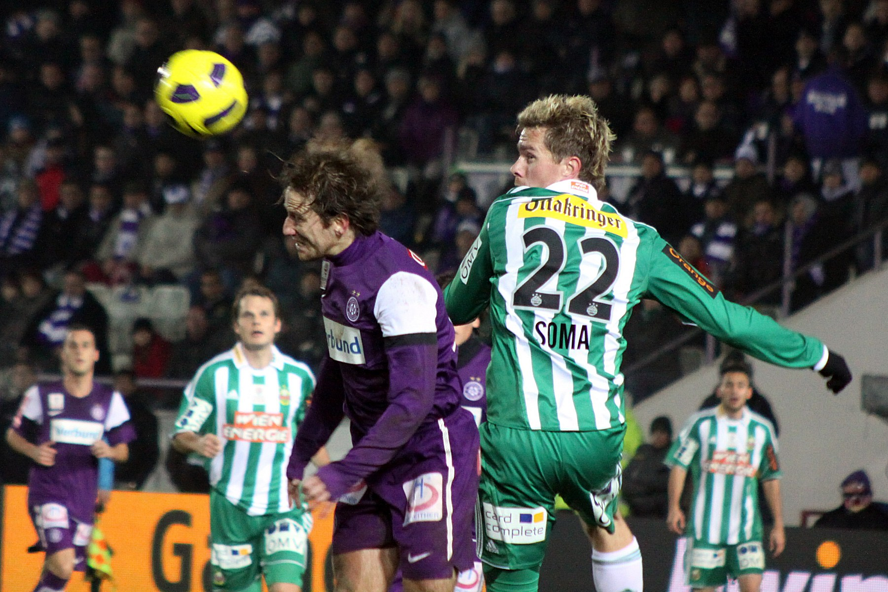 Derby of Vienna - FK Austria Wien vs. SK Rapid Wien 0:1 – Tomáš Jun vs. Ragnvald Soma.